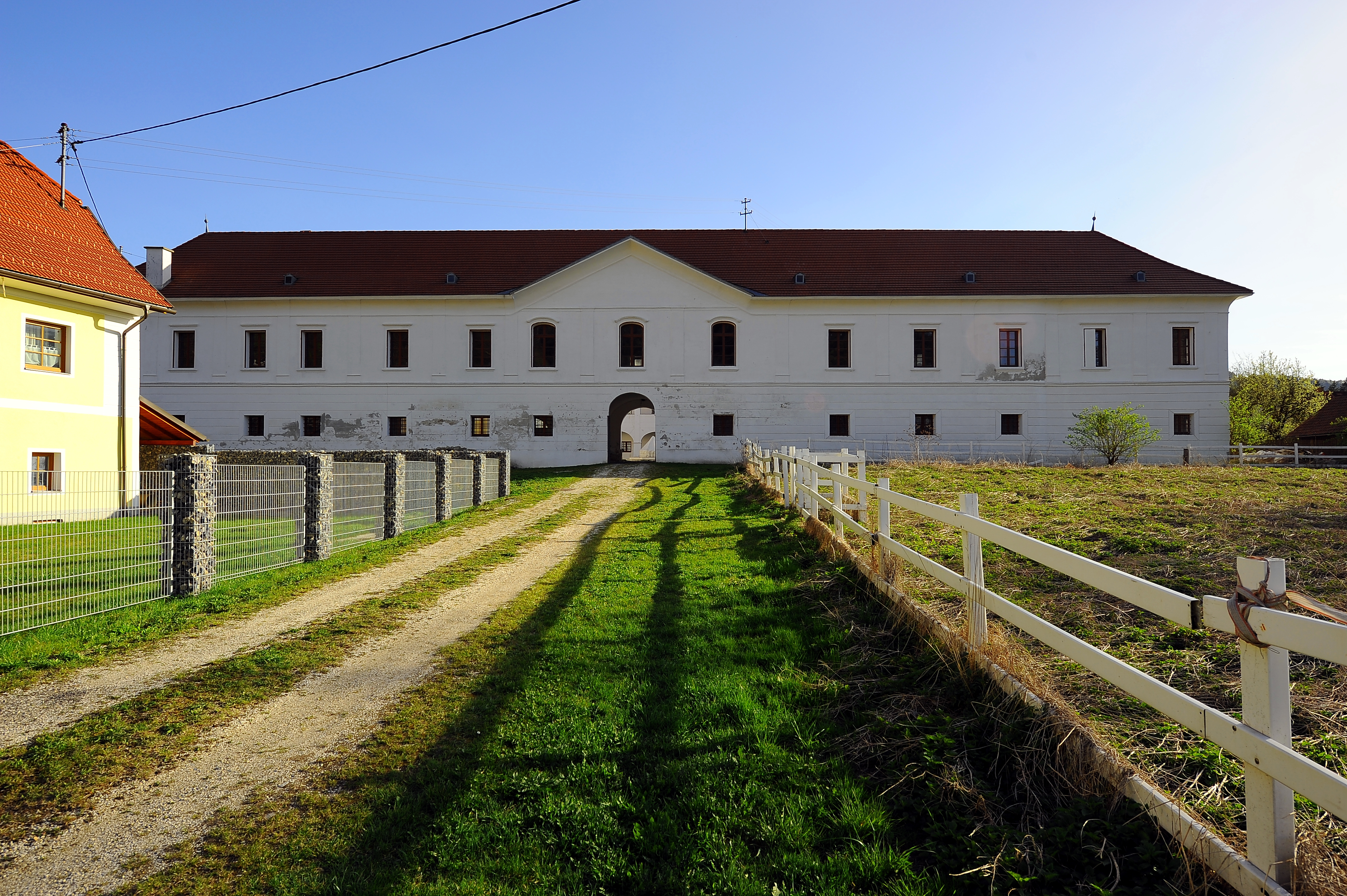 North view at castle Mittertrixen at Mittertrixen, municipality Voelkermarkt, district Voelkermarkt, Carinthia / Austria / EU